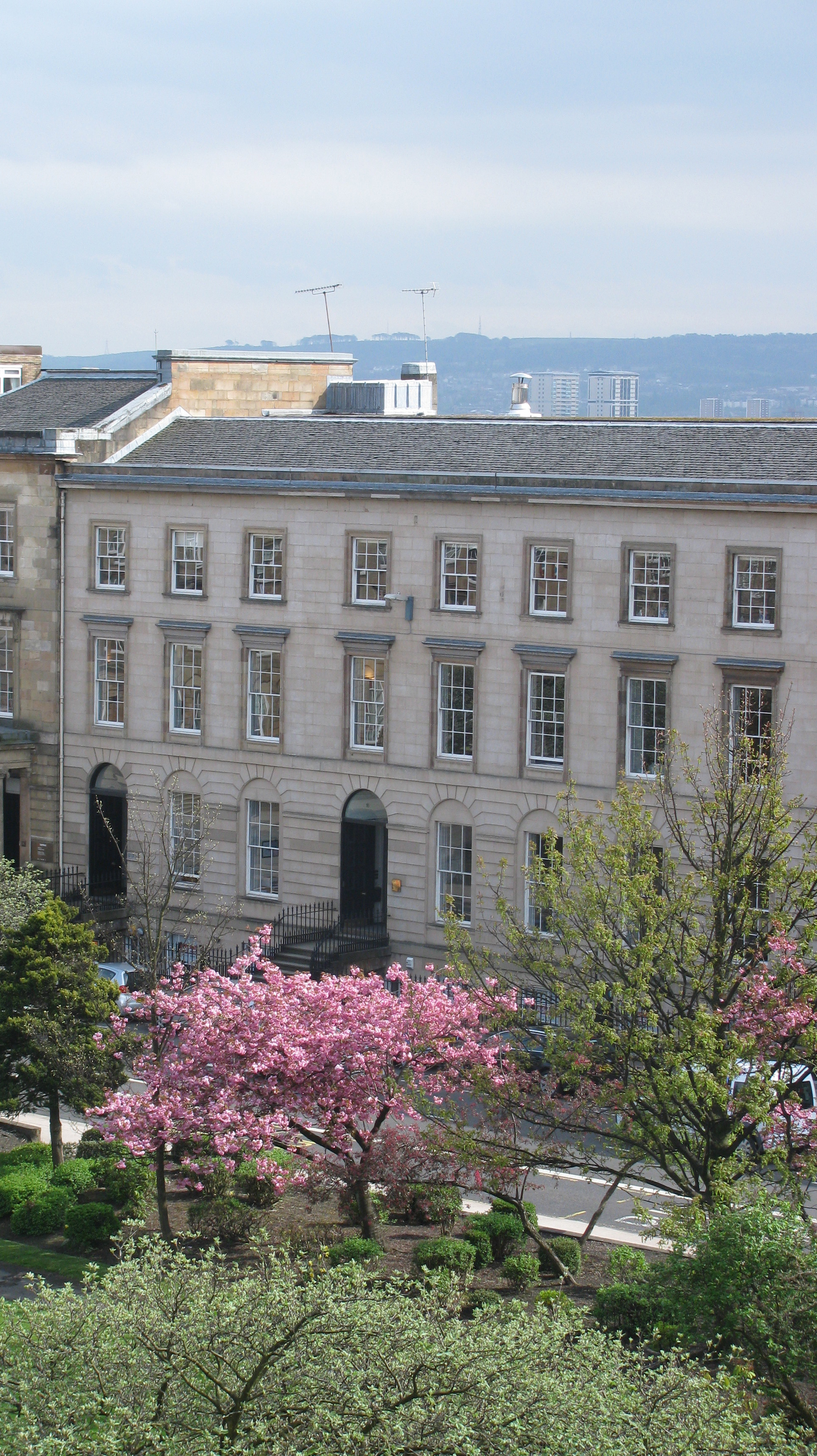 Photo of Scottish Friendly House in Glasgow